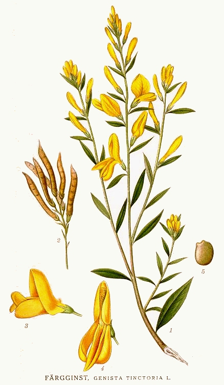 Original Description Färgginst, Genista tinctoria L.